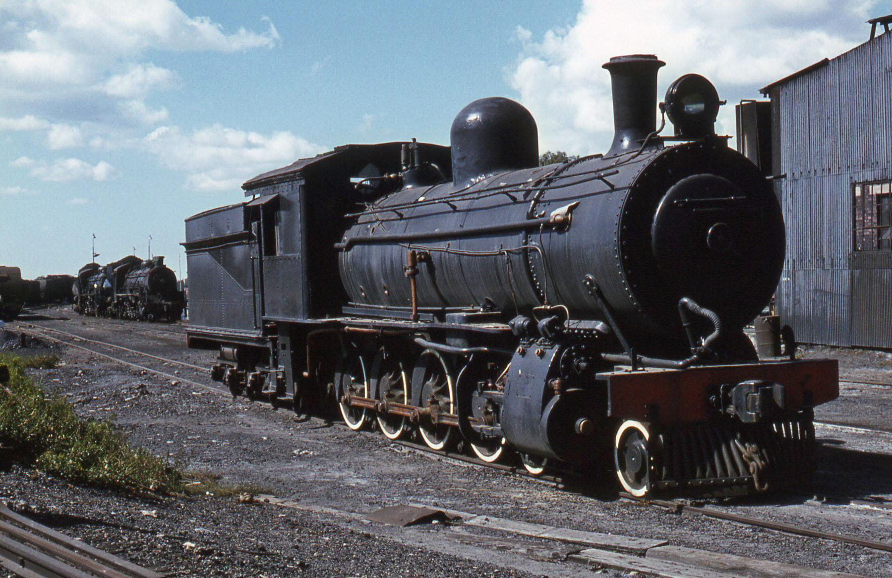 SAR Class 8A 1106 (4-8-0) Location: Breyten